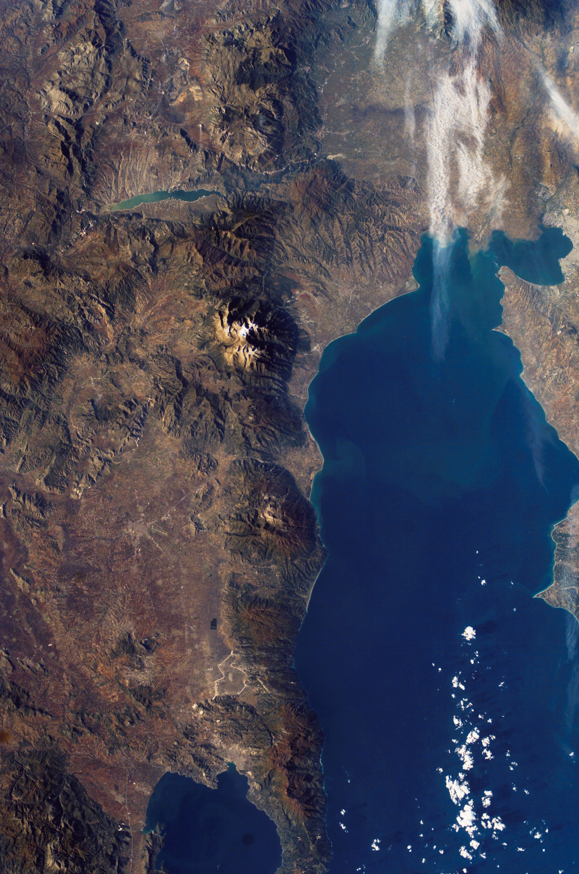 Satellite picture of the Mount Olympus, the highest mountain of Greece.